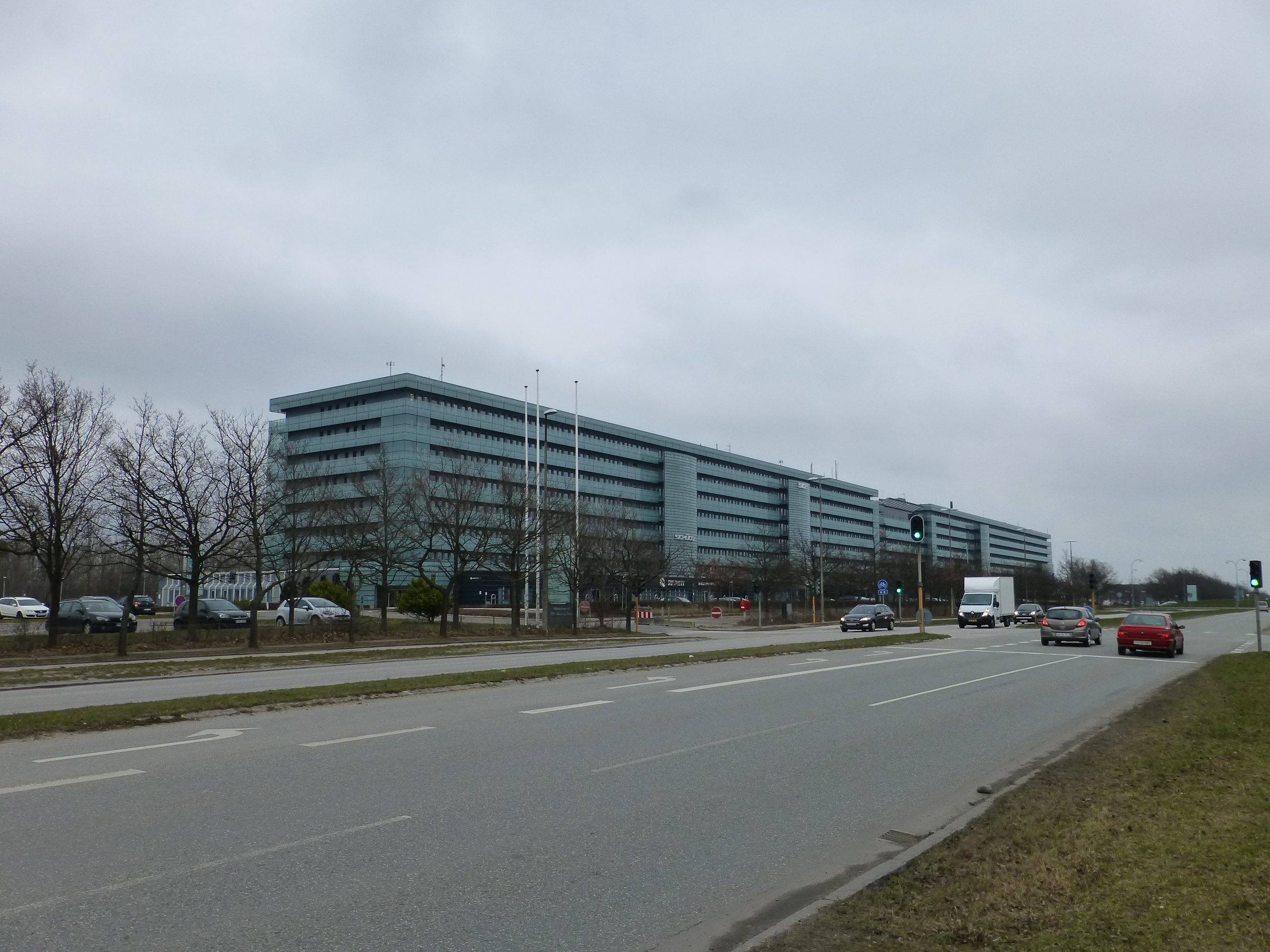 The building Center Syd at Avedøre Holme in Hvidovre in Denmark.